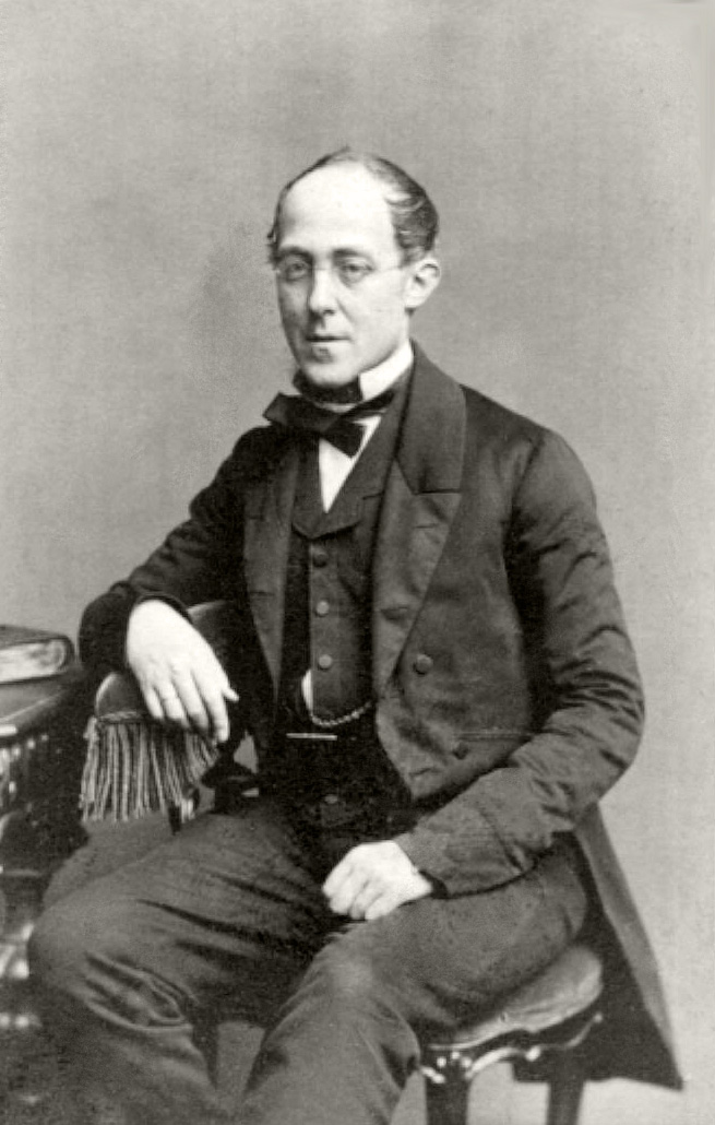 Photography of David Bierens de Haan (1822-1895), CDV or CAB Albumen print